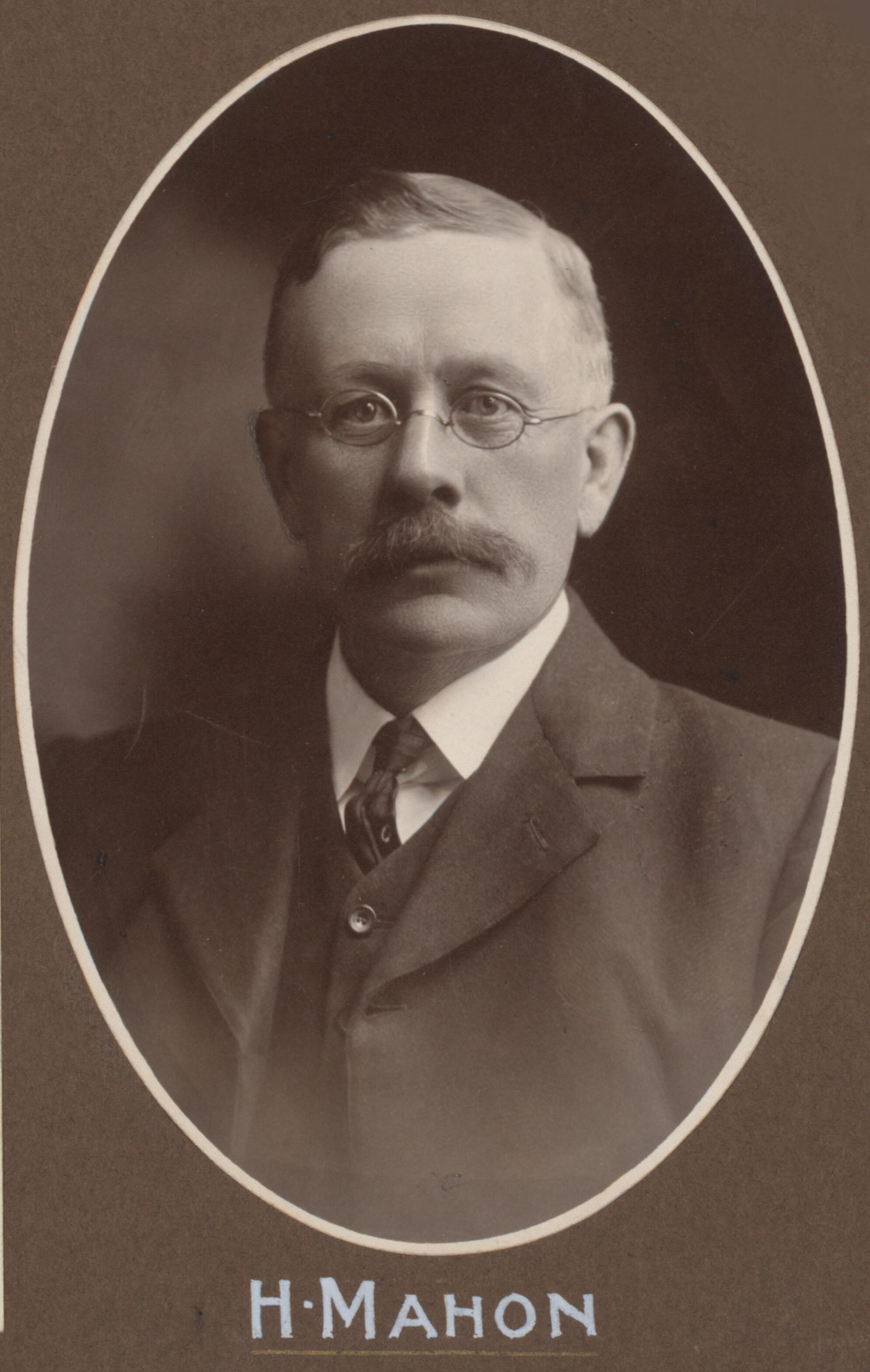 Hugh Mahon, Australian politician